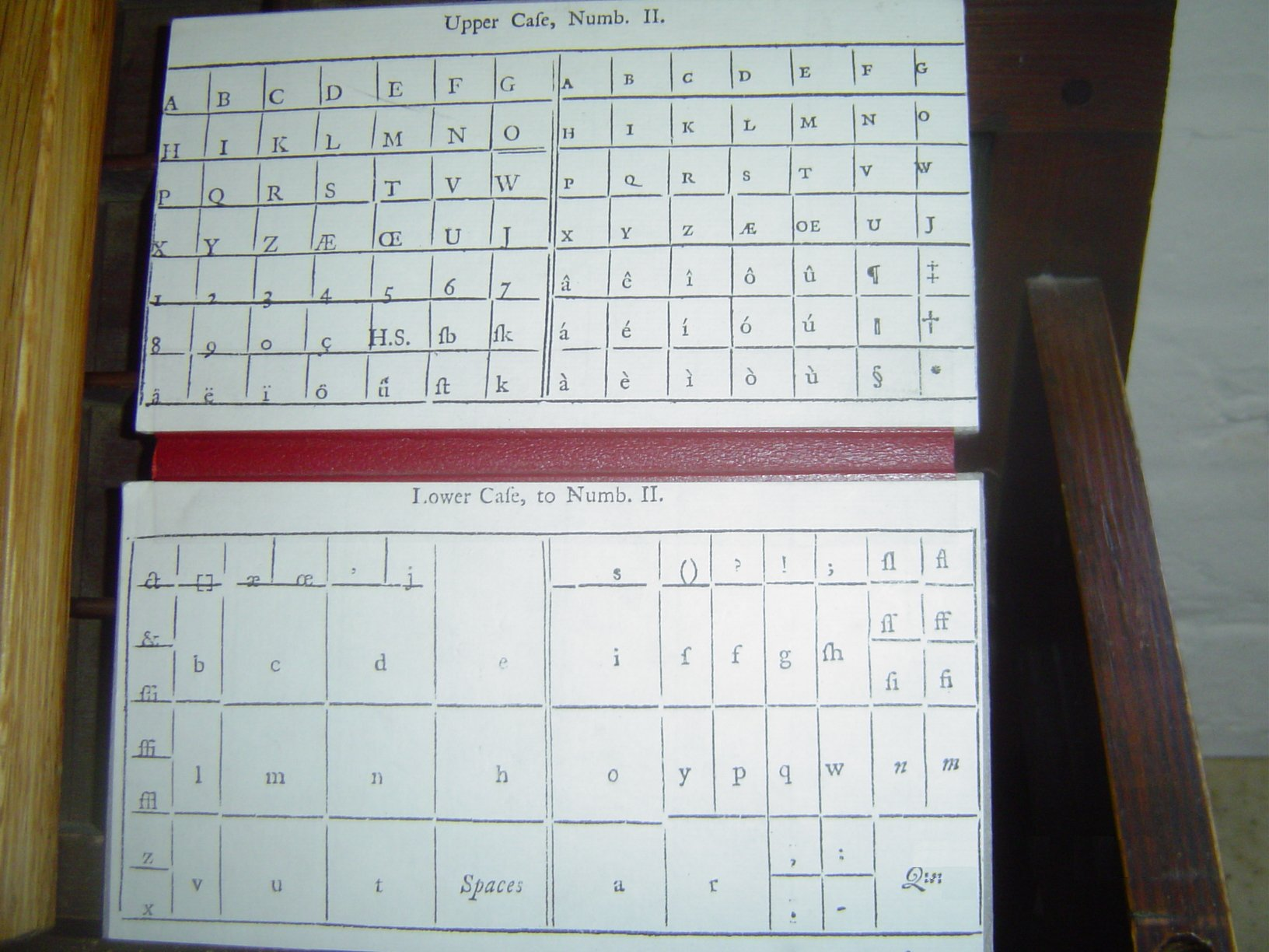 letters of Williamsburg eighteenth century press